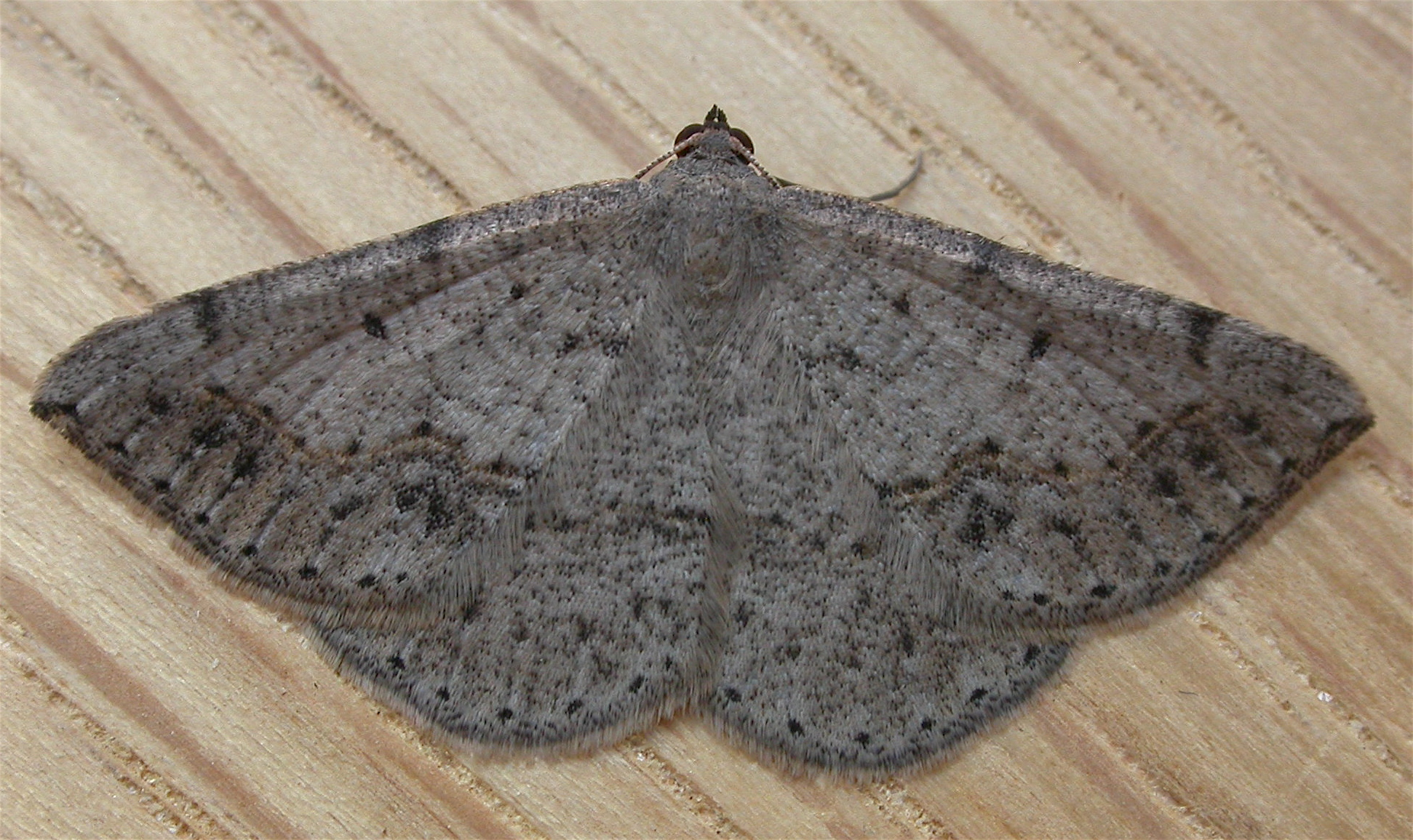 Taxeotis intextata (Guenée, 1857), to MV light, Aranda, ACT, 15/16 October 2008